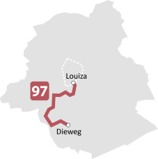 Itinerary of tramway line 97 in Brussels.